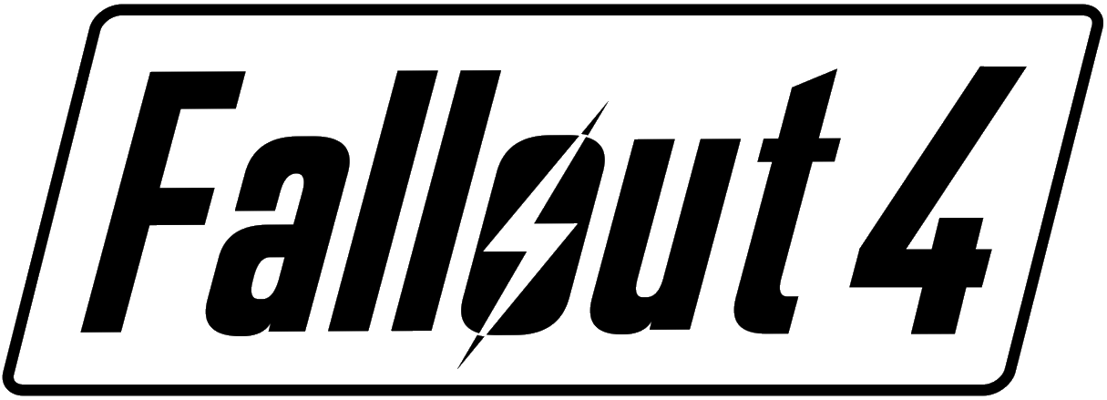 Fallout 4 video game logo.